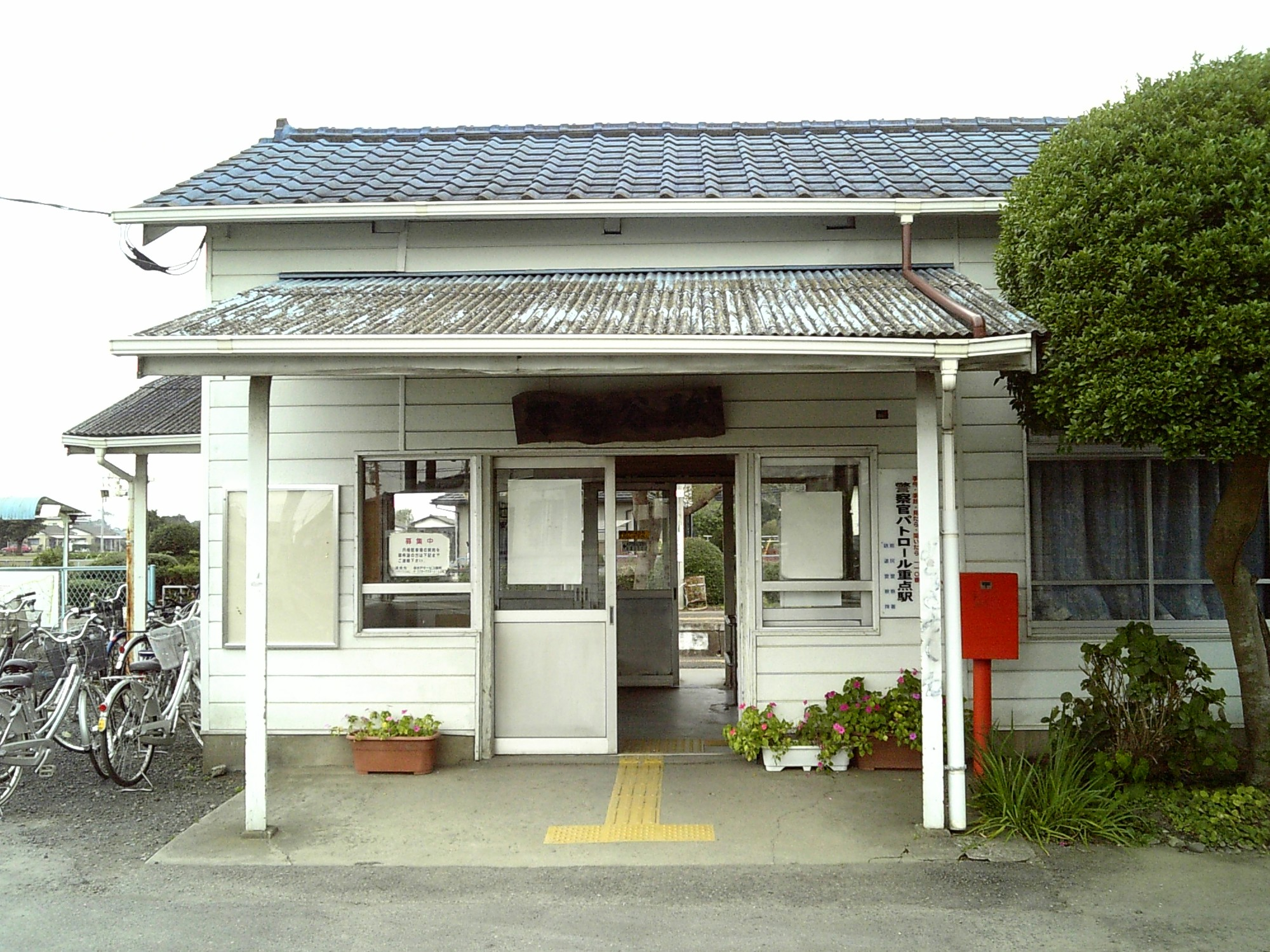 JR East Shimosugaya station.